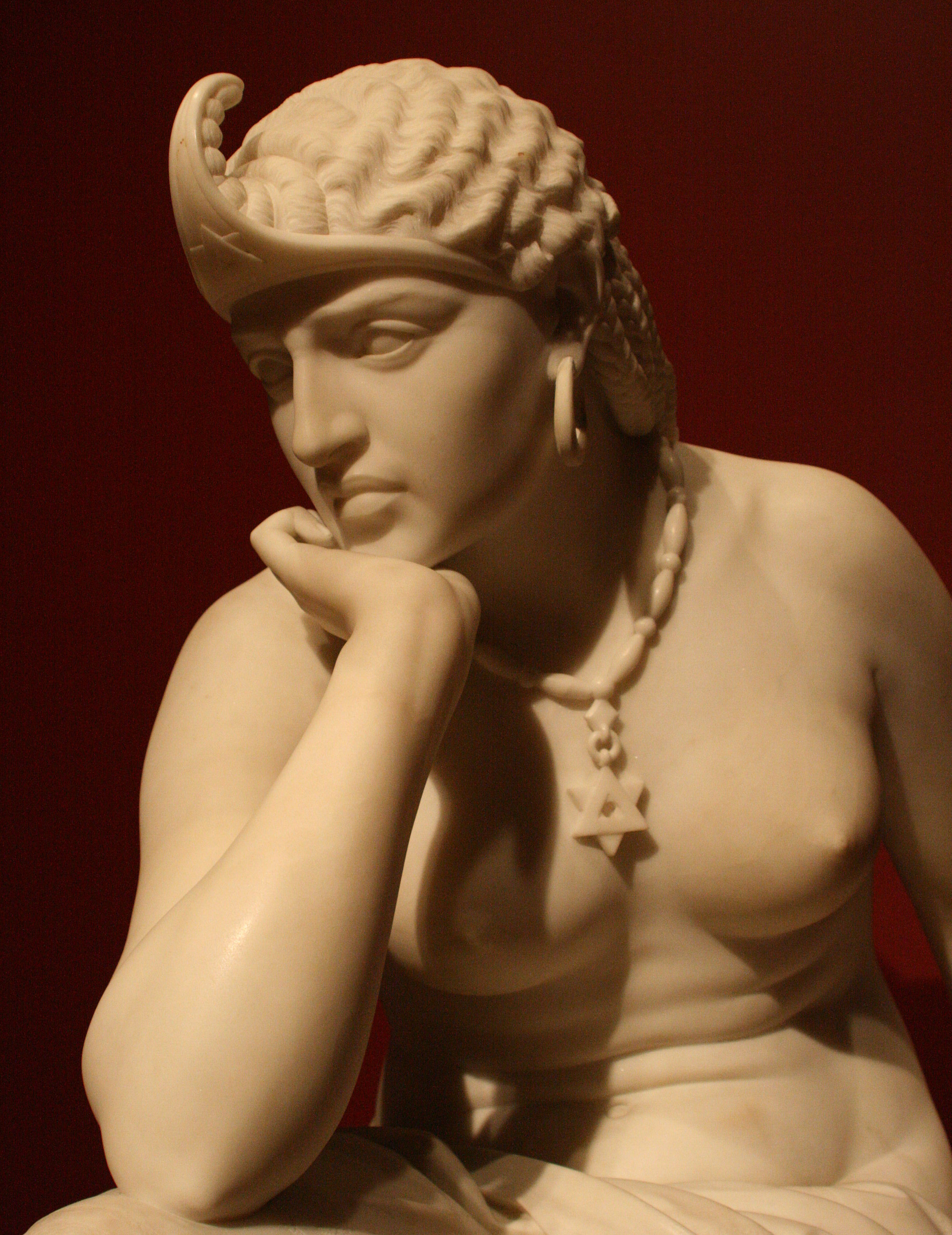 The Libyan Sibyl, named Phemonoe, was the prophetic priestess presiding over the Zeus Ammon Oracle (Zeus represented with the horns of Ammon) at Siwa Oasis in the Libyan Desert. The word Sibyl comes (via Latin) from the ancient Greek word sibylla, meaning prophetess. There were many Sibyls in the ancient world, but the Libyan Sibyl, in Classical mythology, Lamia, foretold the "coming of the day when that which is hidden shall be revealed." In Pausanias Description of Greece, the sibyl names her parents in her oracles: I am by birth half mortal, half divine; An immortal nymph was my mother, my father an eater of corn; On my mother's side of Idaean birth, but my fatherland was red Marpessus, sacred to the Mother, and the river Aidoneus. (Pausanias 10.12.3) The Greeks say she was the daughter of Zeus and Lamia 1 2, a Libyan queen loved by Zeus. Euripides mentions the Libyan Sibyl in the prologue of the Lamia. The Greeks further state that she was the first woman to chant oracles, she lived most of her life in Samos, and that the name Sibyl was given her by the Libyans. Serapion, in his epic verses, says that the Sibyl, even when dead ceased not from divination. And he writes that, what proceeded from her into the air after her death, was what gave oracular utterances in voices and omens; and on her body being changed into earth, and the grass as natural growing out of it, whatever beasts happening to be in that place fed on it exhibited to men an accurate knowledge of futurity by their entrails. He thinks also, that the face seen in the moon is her soul. Plutarch tells the story of Alexander the Great after founding Alexandria, he marched to Siwa Oasis and the sibyl is said to have confirmed him as both a divine personage and the legitimate Pharaoh of Egypt.